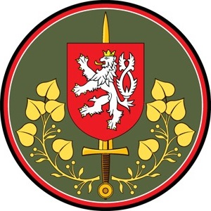 Emblem of the Ground Forces of the Czech Republic.